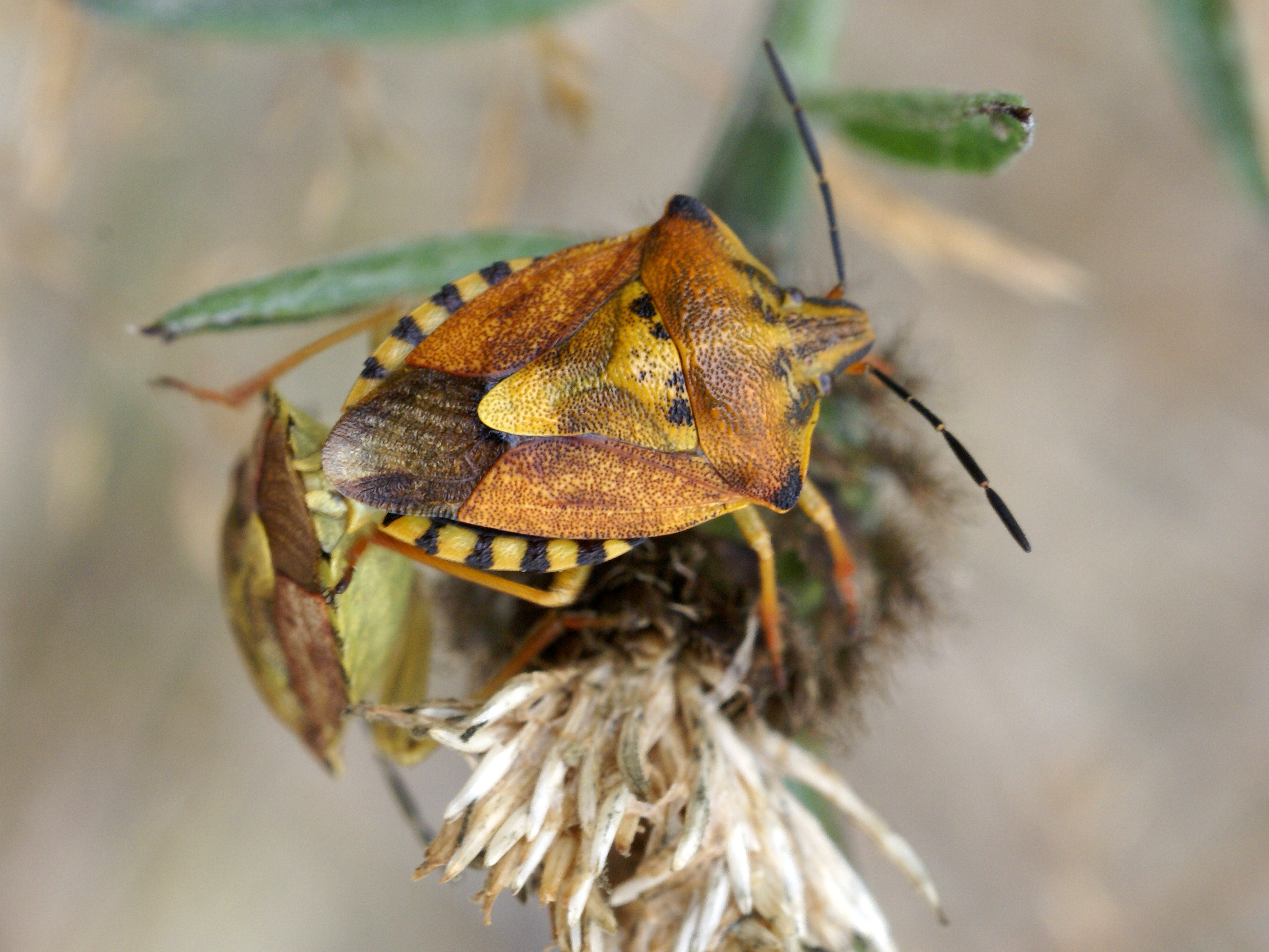 Pentatomid bugs near Lanquais, Dordogne, France.